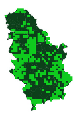 Aricia agestis - map of distribution in Serbia